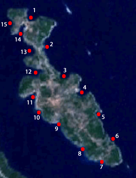 Satelite image of island Rava with marked bays.